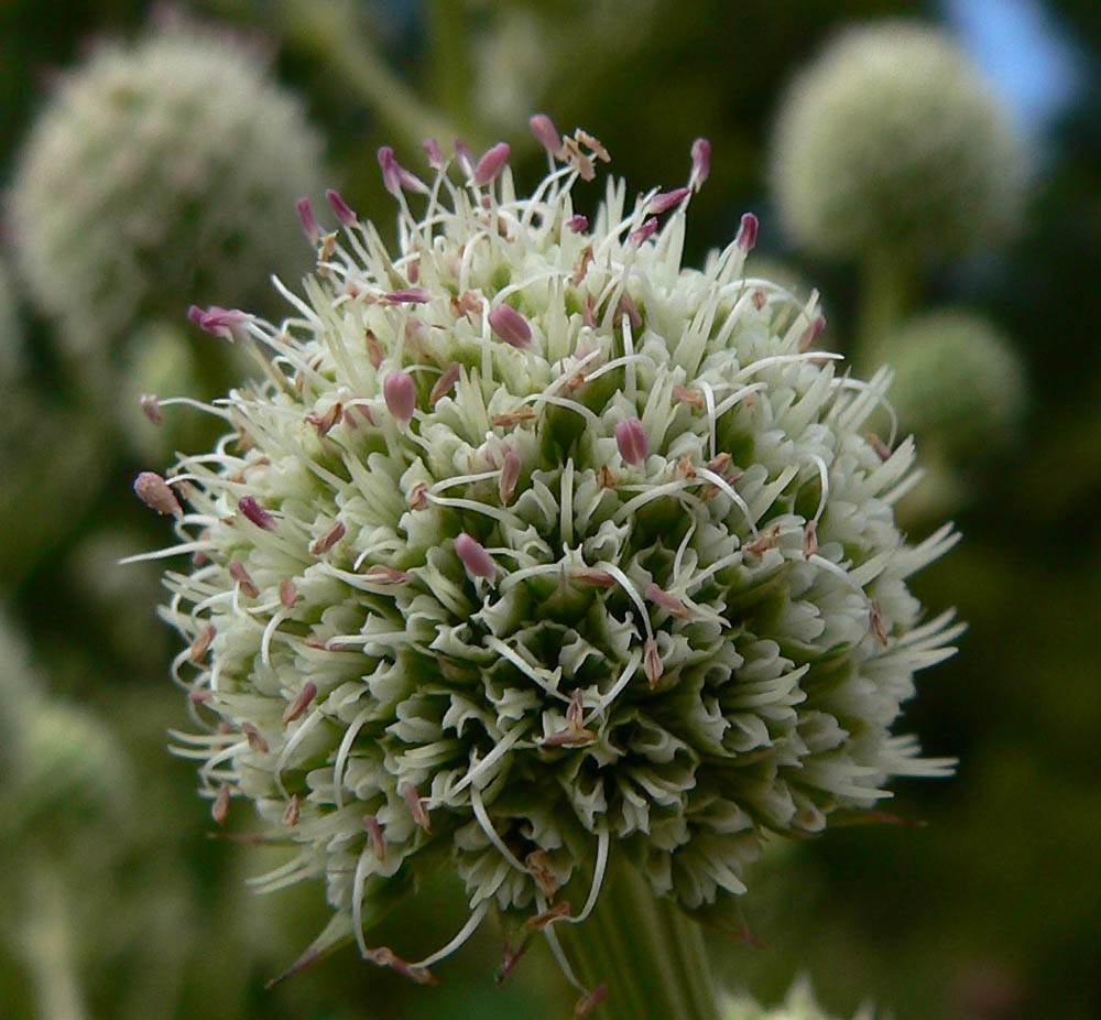 Photo of Eryngium paniculatum at the San Francisco Botanical Garden